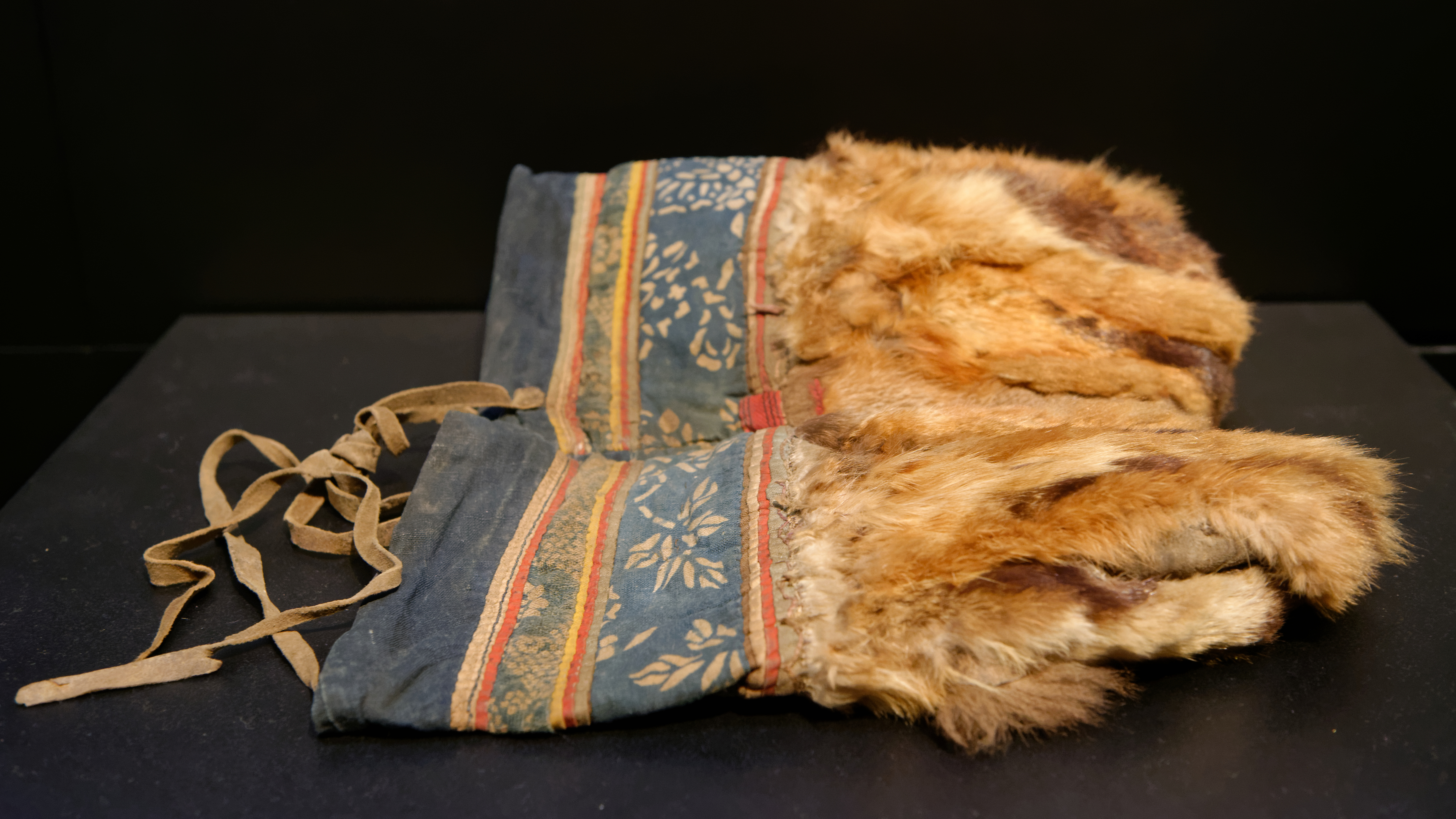 Female mittens made from red fox fur, indigo-dyed cotton canvas and leather. Orok people, Sakhalin island, Federation of Russia.